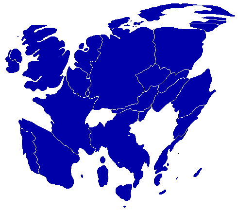 A cartogram depicting population distribution within the European Union at the member state level. Note how roughly half of all citizens within the EU live within the 4 largest member states: Germany, France, United Kingdom, and Italy.